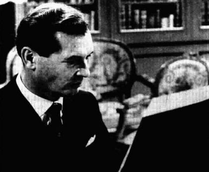 Italian composer Roman Vlad in the Italian TV-program Specchio sonoro